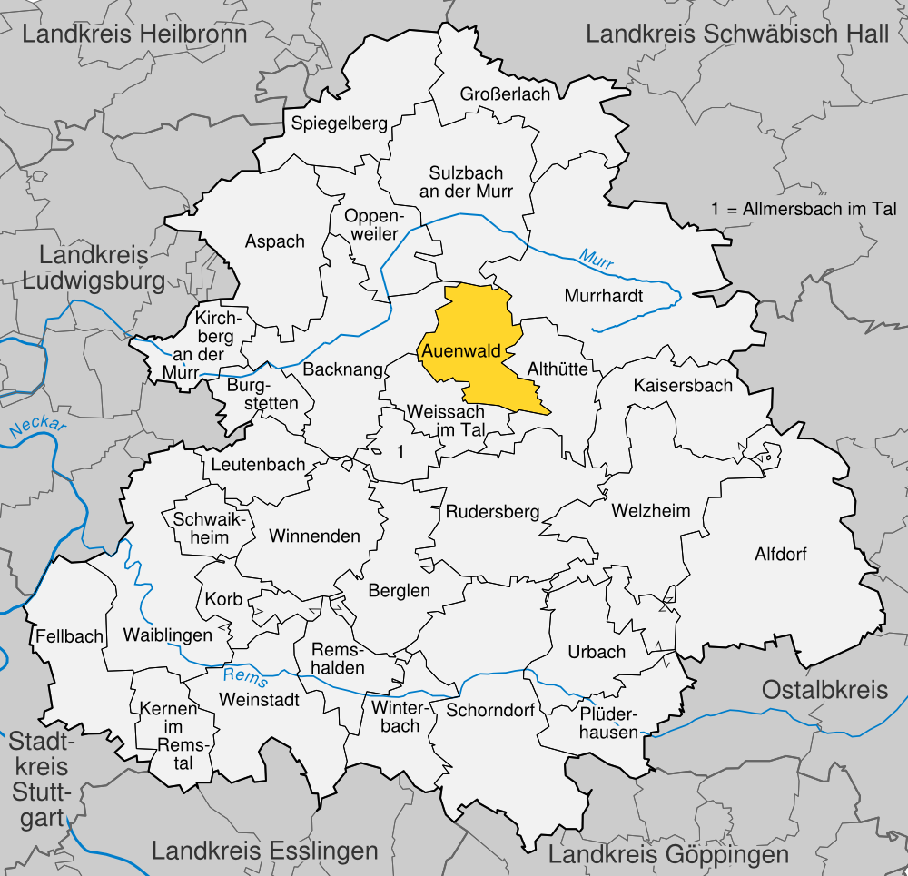 position of Auenwald within the Rems-Murr-Kreis, Baden-Württemberg, Germany